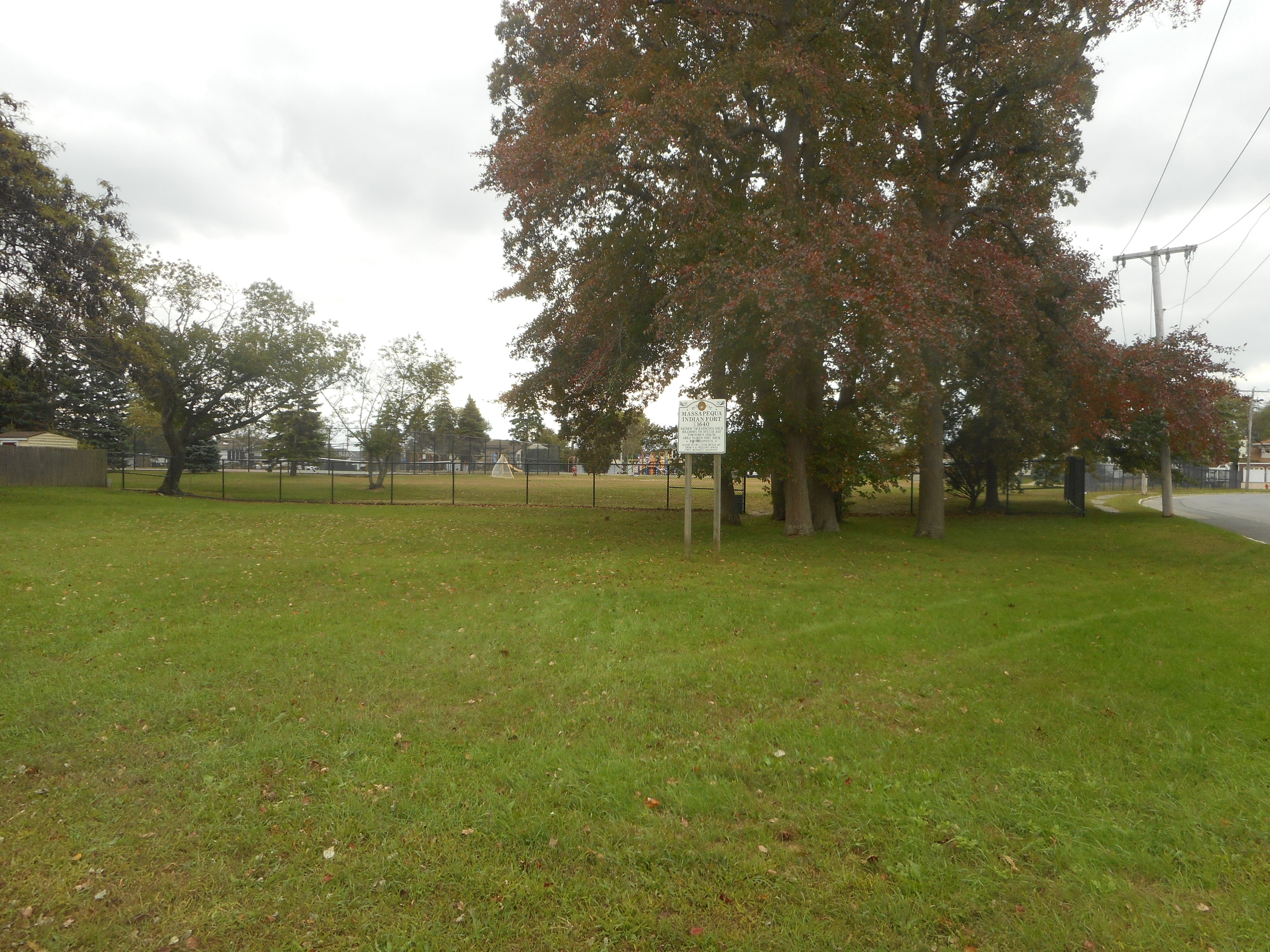 The apparent site of Fort Massapeag in Sunset Park in Massapequa, New York. Fort Massapeag was an old Dutch trading post where Dutch settlers traded wampum with Lenape Native Americans, and may have been the site of an Indian War. I saw no evidence of this when I visited the site though.